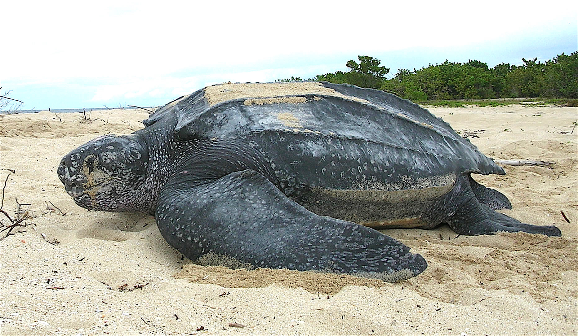 Scientific name: Dermochelys coriacea Common name